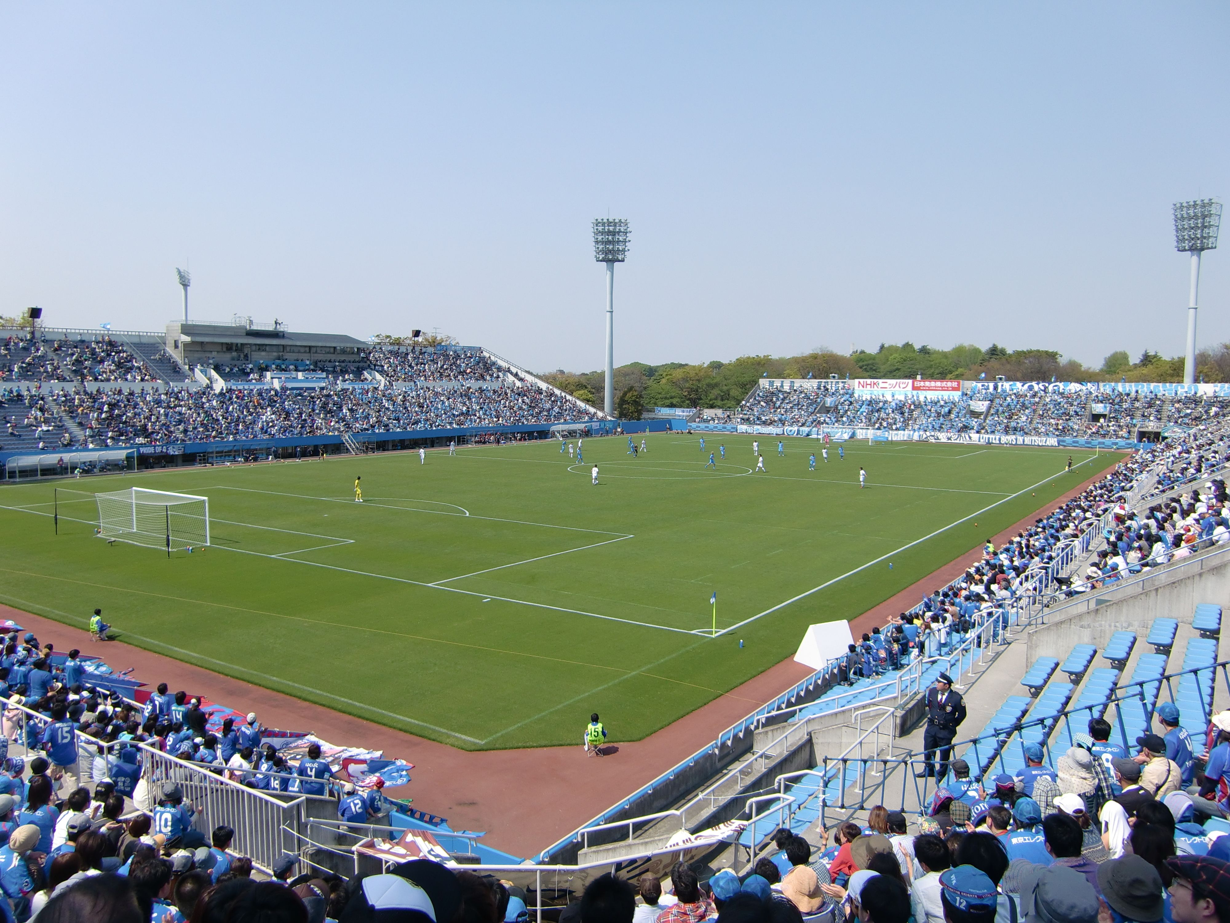 NHK-SPRING NIPPATSU MITSUZAWA FOOTBALL STADIUM